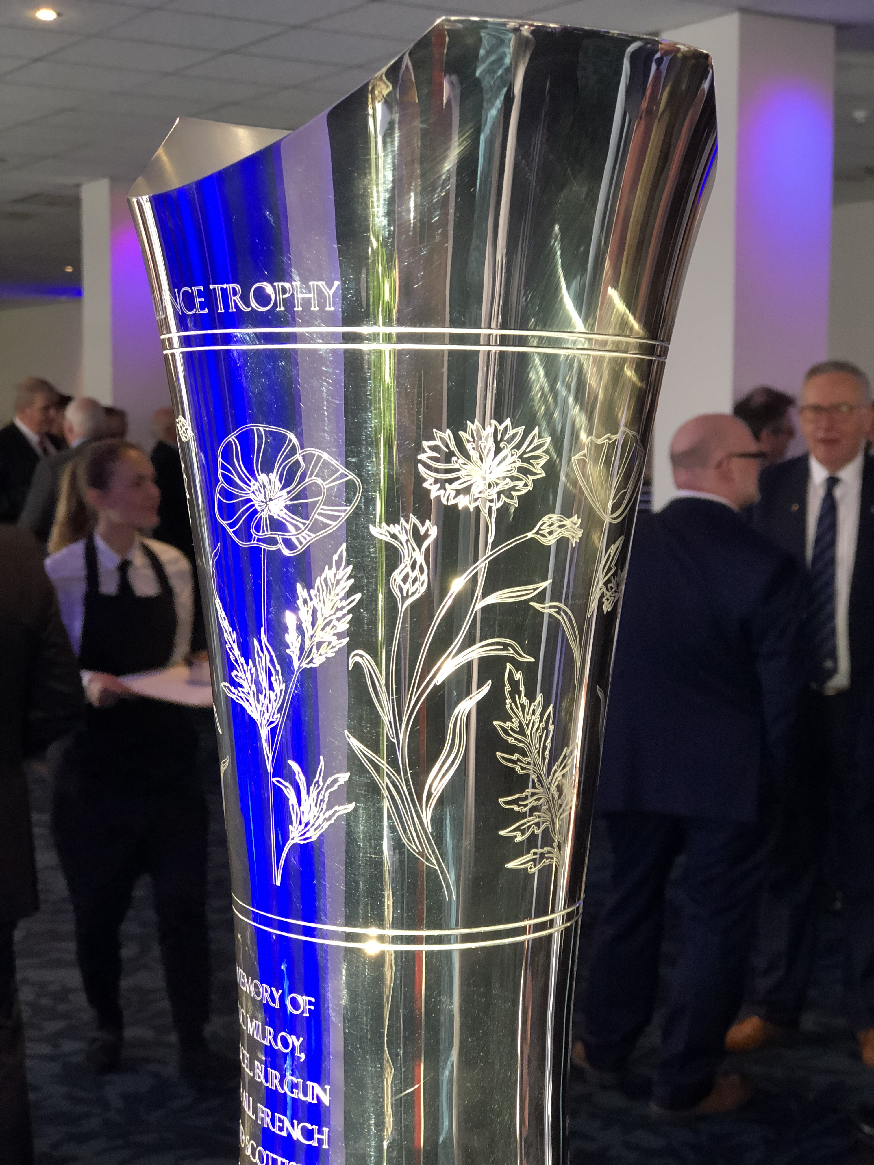 The Auld Alliance Trophy at Murrayfield, shortly prior to the match where it was first presented on 11 February 2018